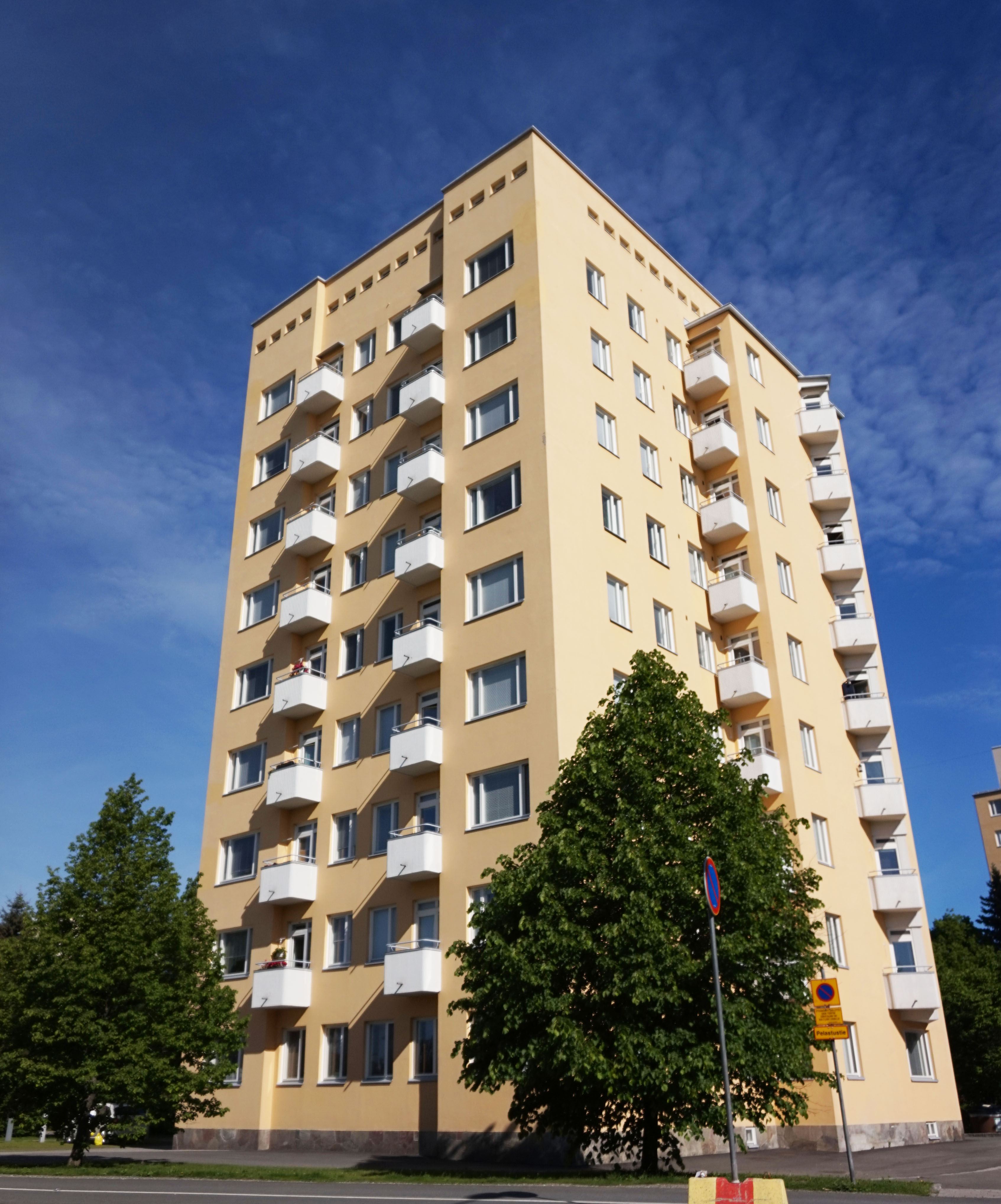 Teiskontie 7 in Tampere, Finland.This photograph was taken with a Sony ILCE-5000